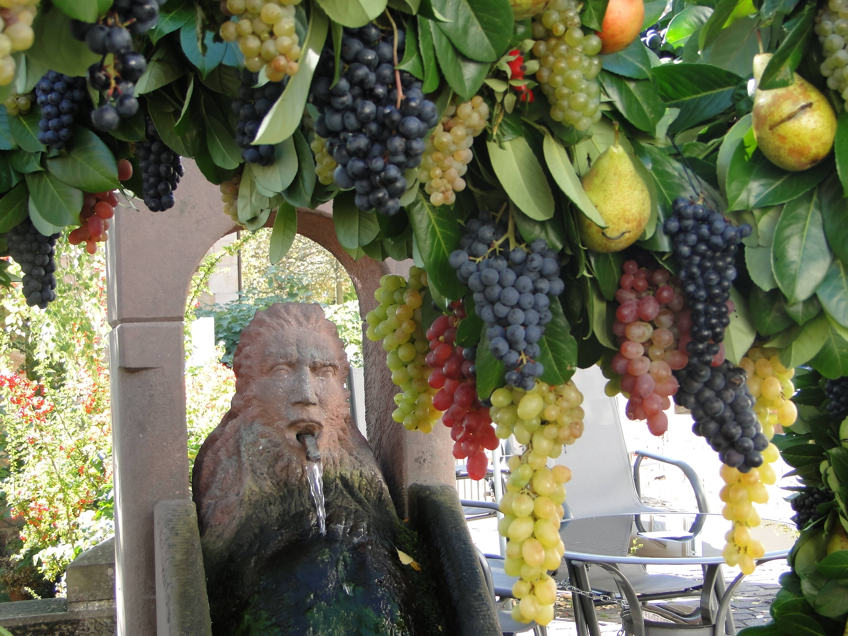 Fountain in Gleisweiler (Pfalz) in Germany, decorated for thanksgiving